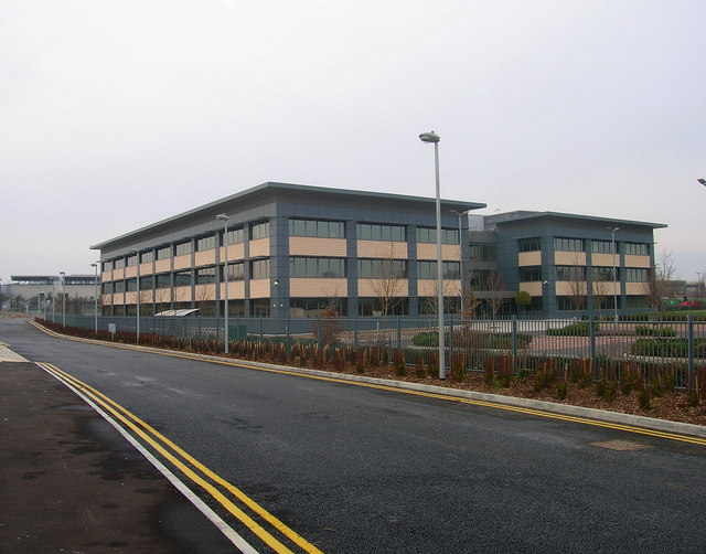 The UK diagnostics headquarters of the Swiss pharmaceutical company Hoffman-La Roche, built on the former location site of Ericsson offices.